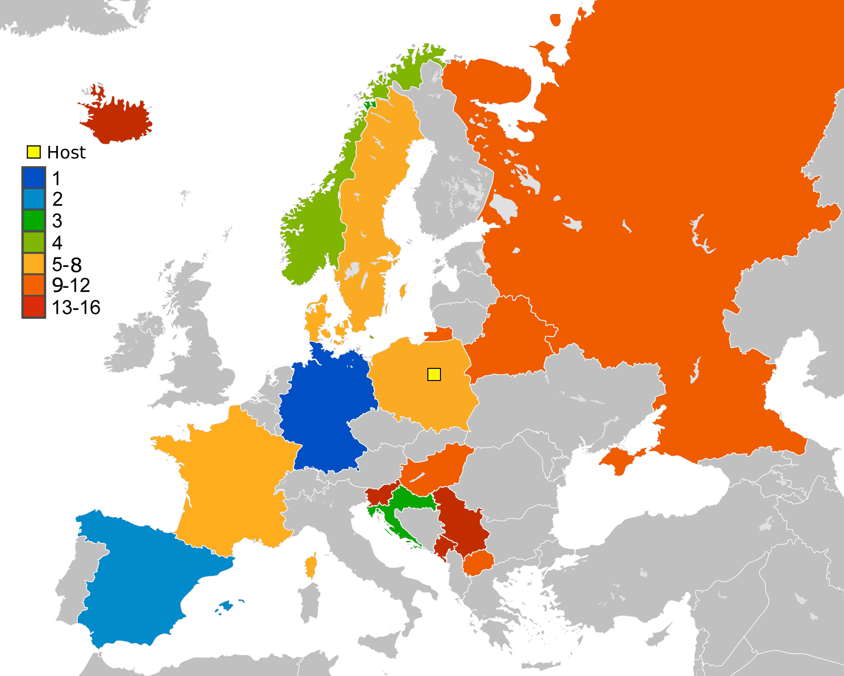 Map of result 2016 EHF championship